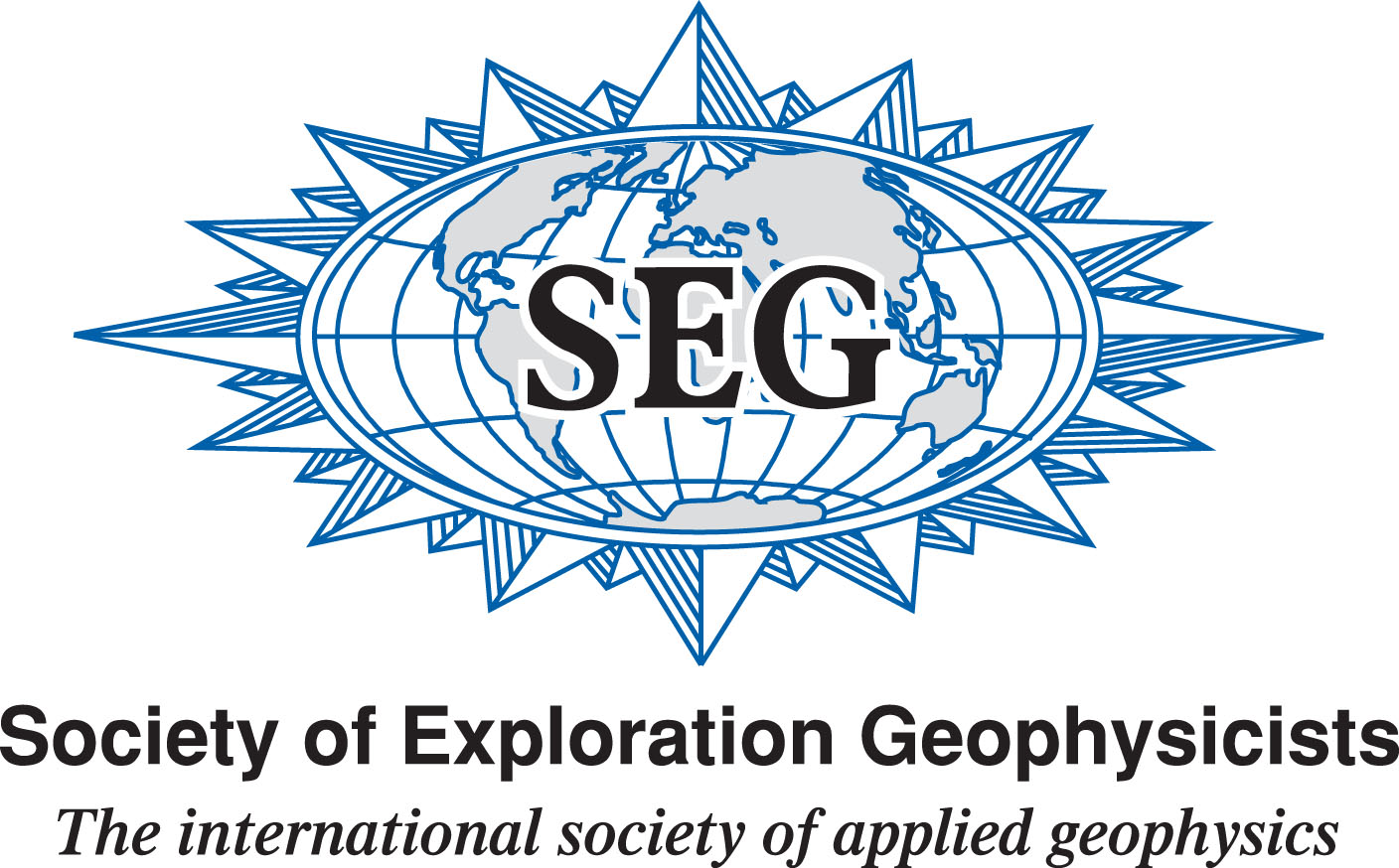 SEG logo